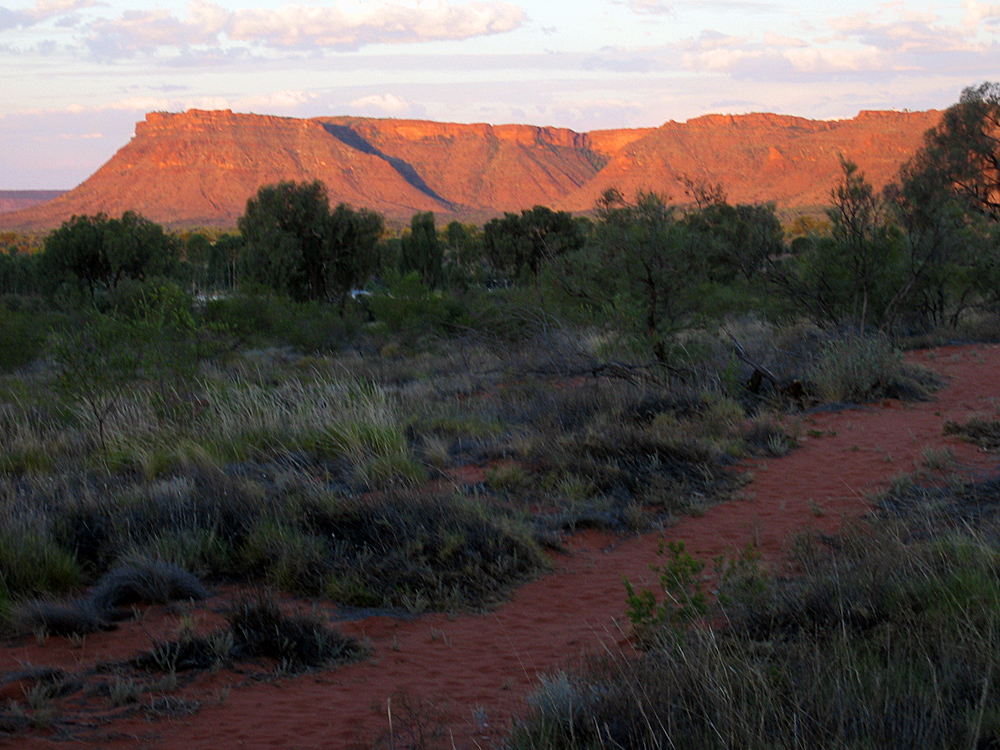 View into Kings Canyon Gorge, Watarrka National Park, Northern Territory, Australia